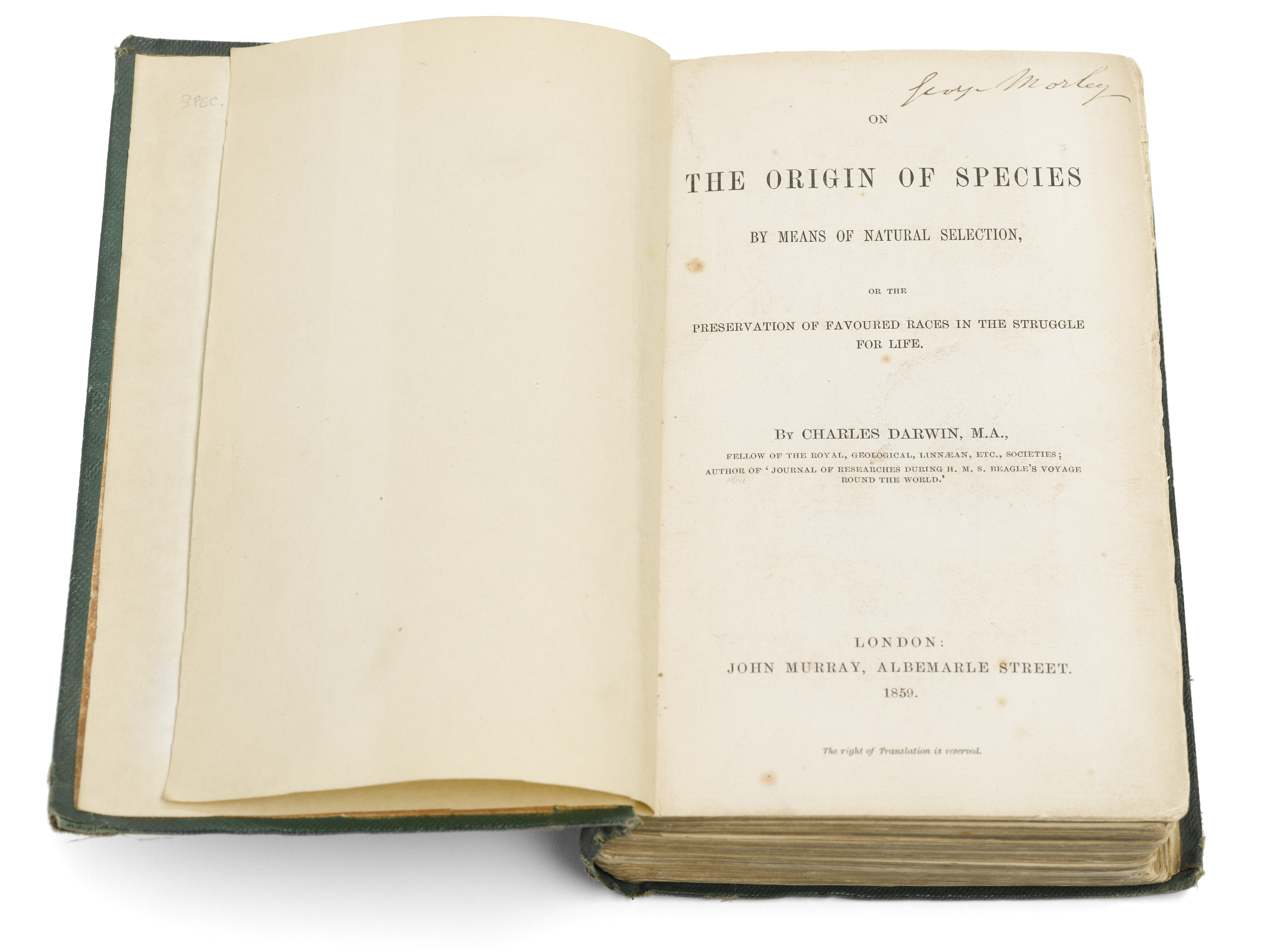 On the origin of species by means of natural selection , or, The preservation of favoured races in the struggle for life / by Charles Darwin General Collections Keywords: Selection, Genetic; Biological Evolution